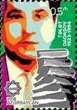 Architects Union of Azerbaijan. Stamp book. Size of book: 177x200. Quantity of pages: 44. This book is about Azerbaijan architects who lived and created in the second part of 20th century. There are included three blocks of four stamps in each stamp book. Vuqar Eyyubov is the painter of the book and the stamps. Block size 75x90mm. Stamps size: 26x37mm. Catalogue number:1506-1517 Perforation:through 13 ¼ Issued: by Bobruysk Integrated Printing House Belarus, Bodruysk city Circulation:5000 stamps in each block Stamps included in to blocks: N1506 Honoured architect Ilham Aliyev N1507 Architect Vadim Shulgin N1508 Engineer architect Sanan Sultanov N1509 Honoured architect Parviz Huseynov N1510 Honoured architect Hajimurad Shugayev N1511 Honoured architect Avrora Salamova N1512 Honoured architect Fira Rustambayova N1513 Honoured architect Abram Surkin N1514 Professor Abdulvahab Salamzade N1515 Architect Davud Akhundov N1516 Architect Talat Dadashov N1517 Architect Boris Revazov FDC: each post block of 100 cover (total 300 cover)